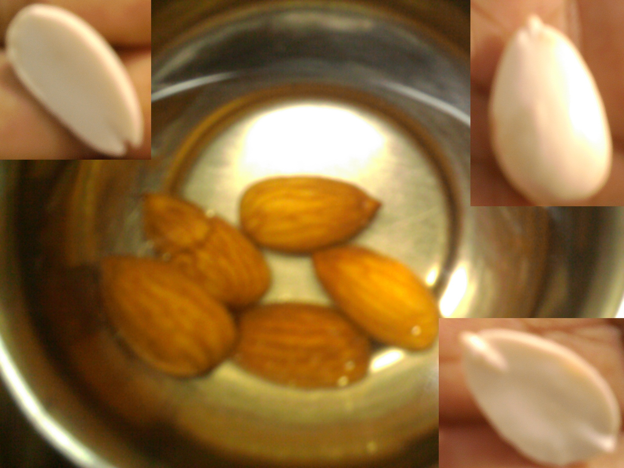 Almond nuts in water